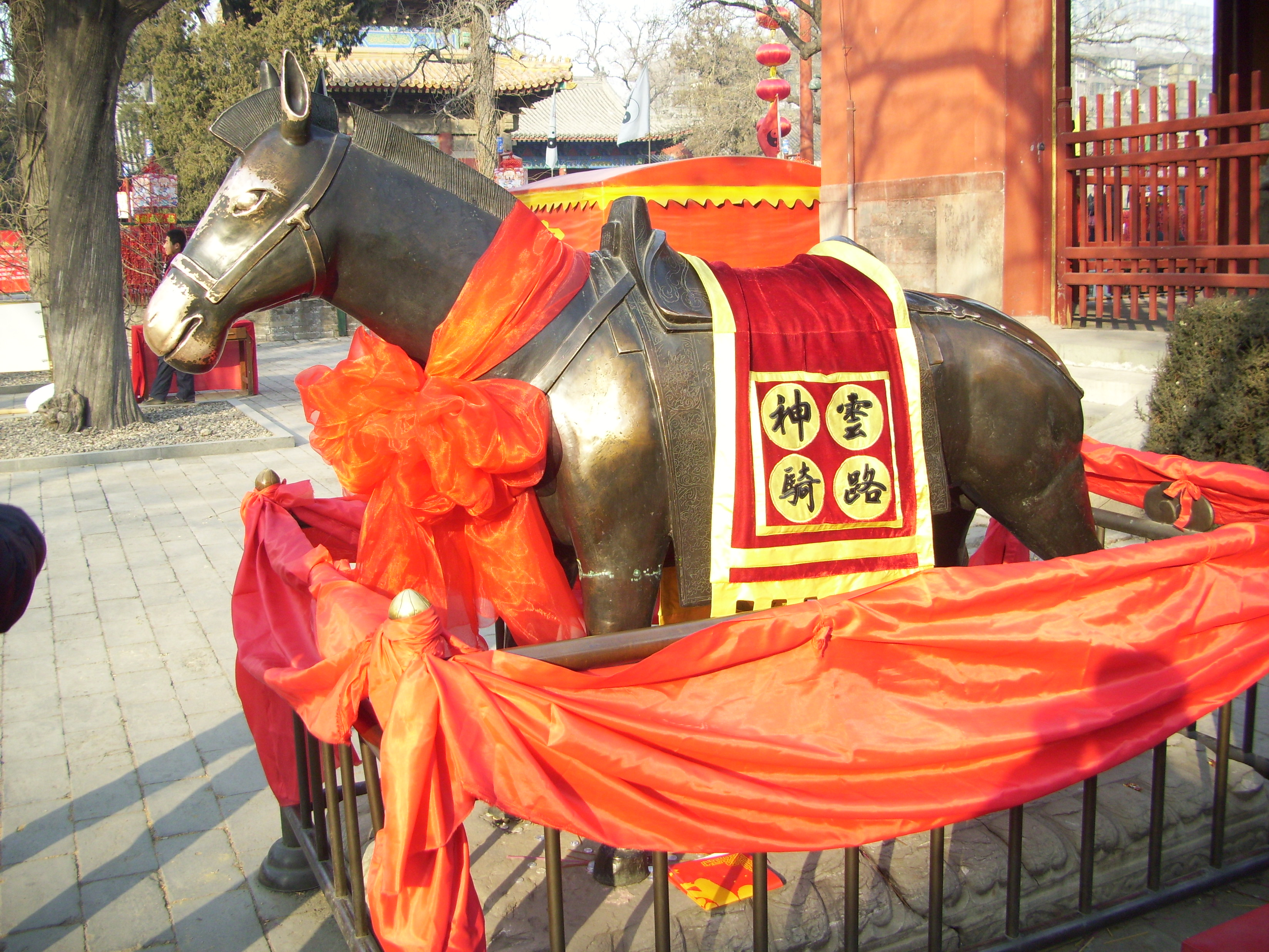 Bronze Wonder Donkey (Tong Te)